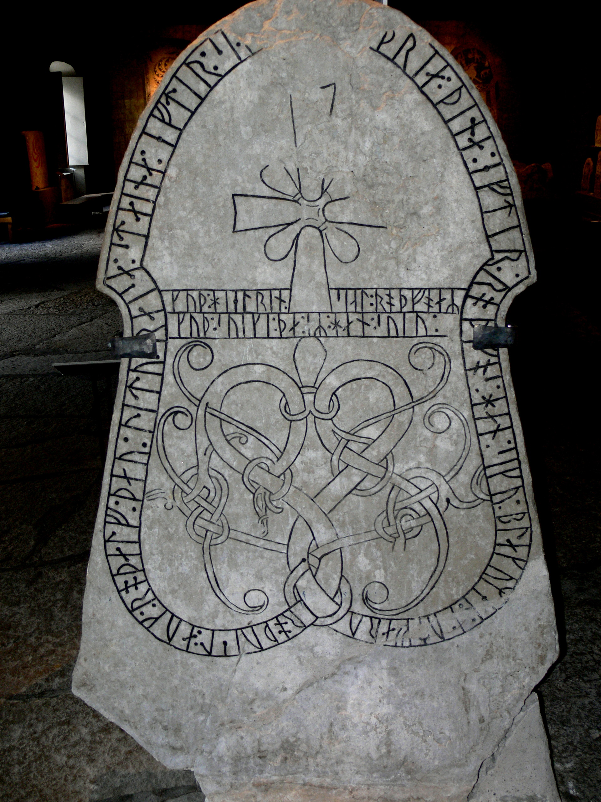 Fornsalen Museum, Visby ( Gotland ). Runestone G 134 showing Christian motives.